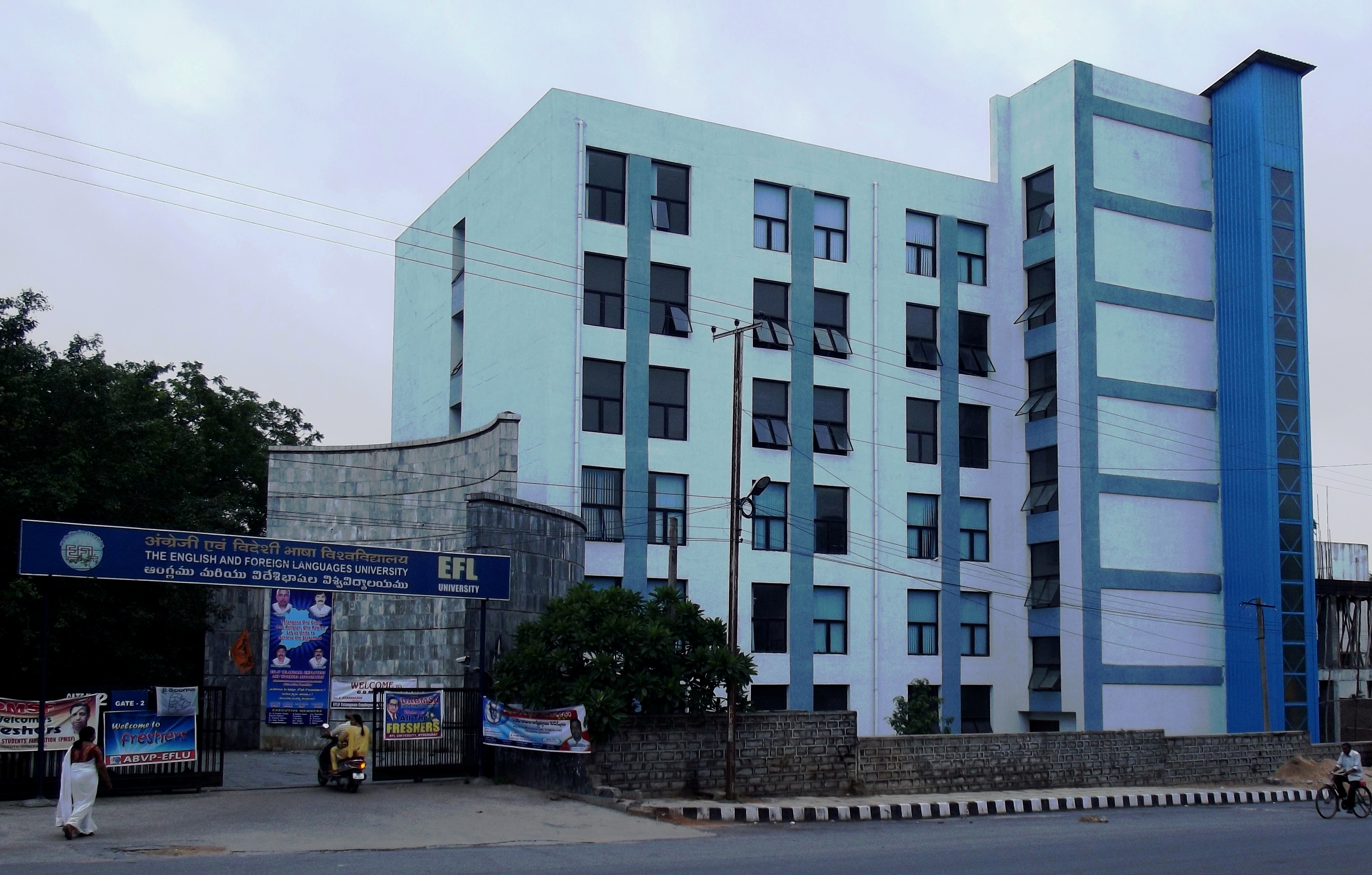 FOREIGN LANGUAGE BUILDING EFL UNIVERSITY HYDERABAD 500007